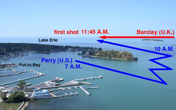 Battle of Lake Erie: Movements of Perry (US) and Barclay (UK) squadrons on the morning of September 10, 1813